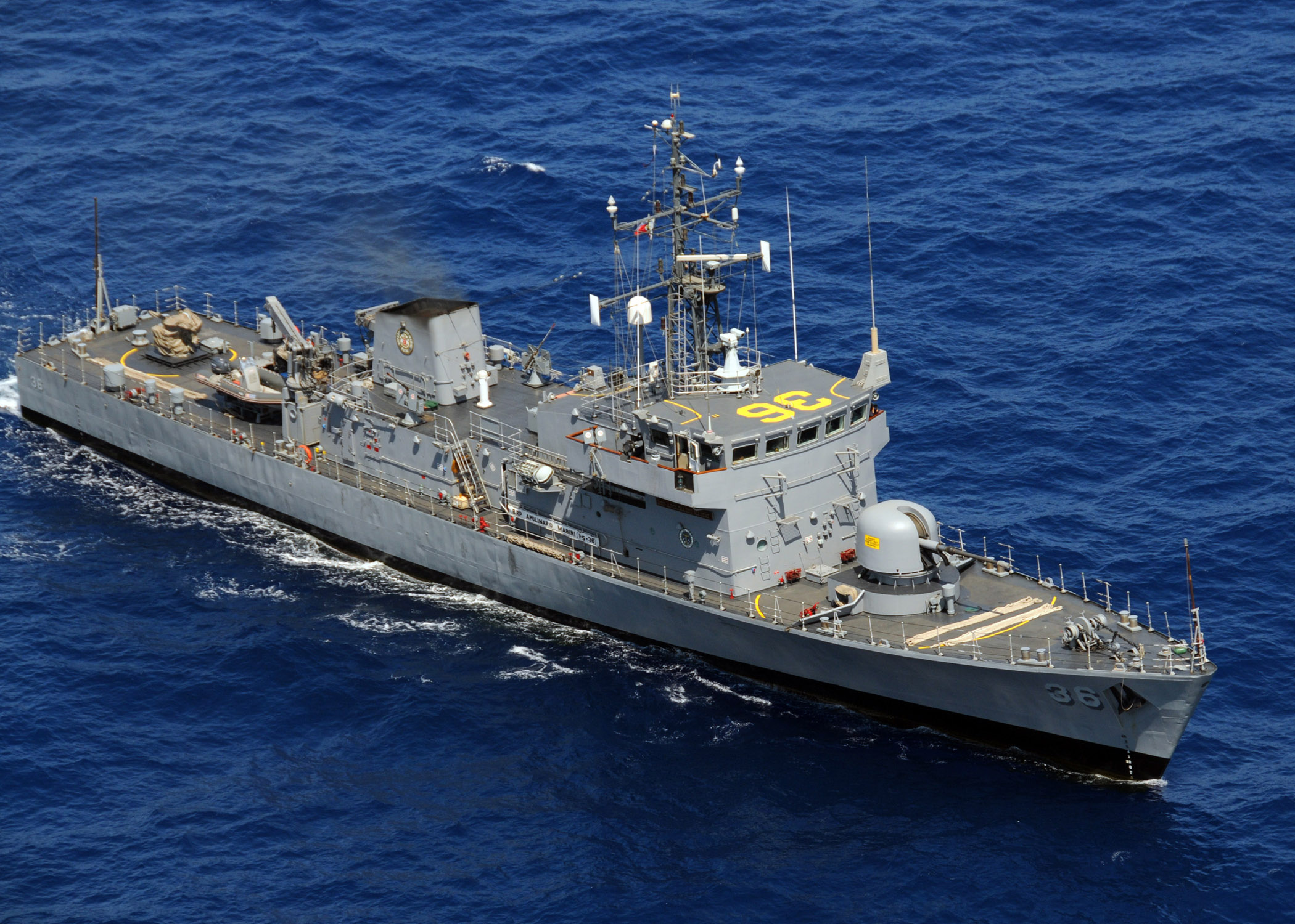 SOUTH CHINA SEA (March 14, 2010) - Republic of the Philippines Navy ship BRP Apolinario Mabini (PS 36) steams in formation for a photography exercise as a part of exercise Balikatan 2010 (BK 10). Essex, commanded by Capt. Troy Hart, is part of the forward-deployed Essex Amphibious Ready Group and is participating in BK 10, an annual, bilateral exercise designed to improve interoperability between the U.S. and Republic of the Philippines. (U.S. Navy photo by Mass Communication Specialist 2nd Class Mark R. Alvarez/Released)